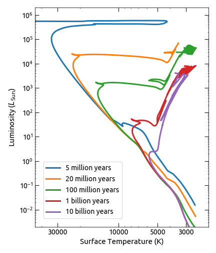 Theoretical isochrones from the stellar models by Leo Girardi and collaborators (Padova) for near-solar metallicity and a range of ages. Jupyter notebook and data available at: Created at AstroHackWeek2017.